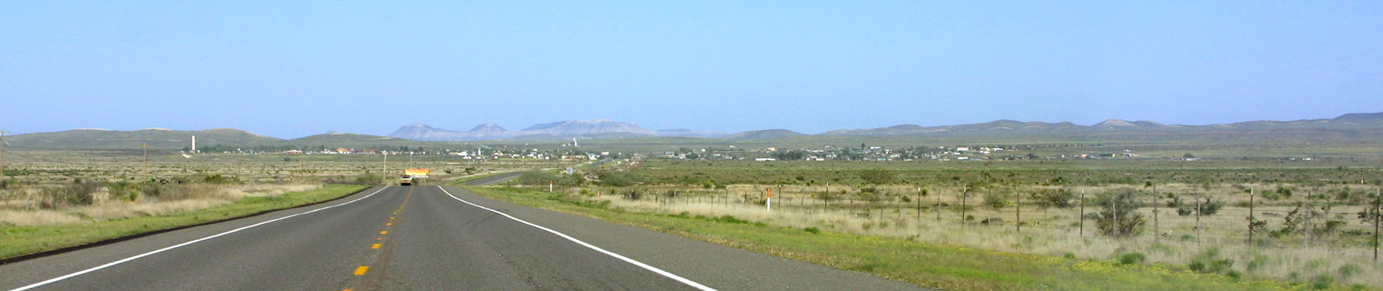 Panoramic view of Marathon, Texas taken by me in April 2004